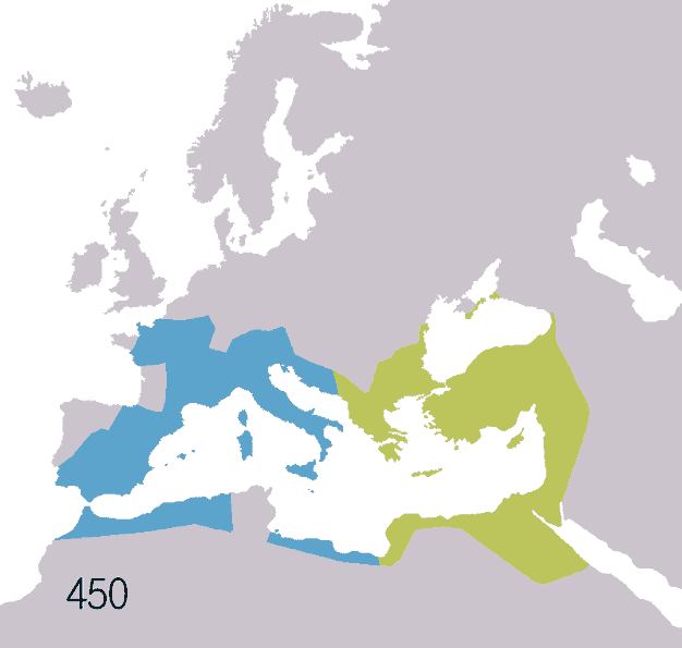 Map of the Roman Republic and Empire at 450 AD. Displayed in the map: Eastern Roman Empire 405AD-1453AD Western Roman Empire 405AD-480AD